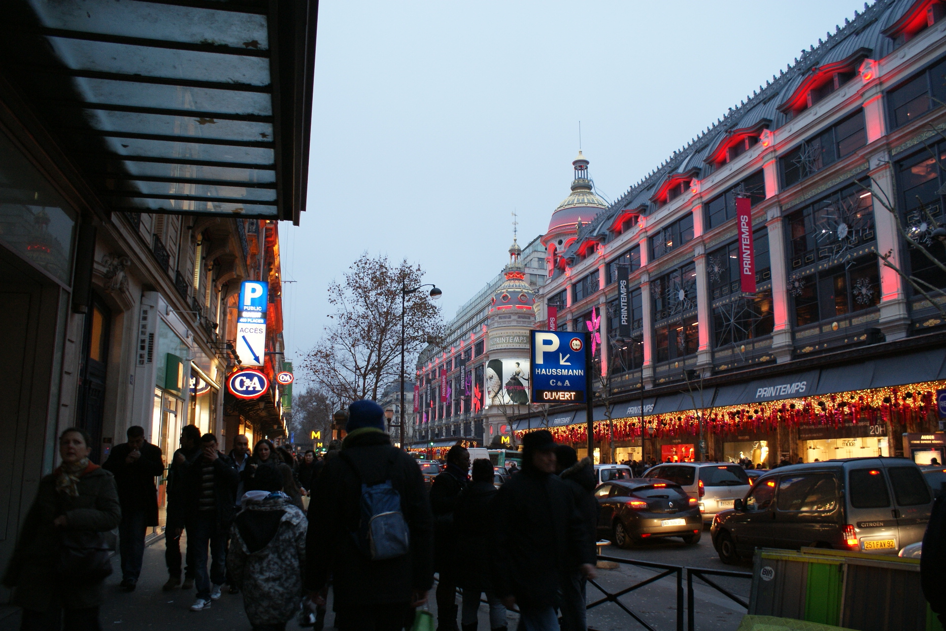 Boulevard Haussmann during Christmass period Boulevard Haussmann durant la période des fêtes de fin d'années.